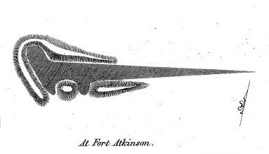 Lapham's sketch of the Panther Intaglio mound at what Fort Atkinson, Wisconsin, as it looked in 1850.